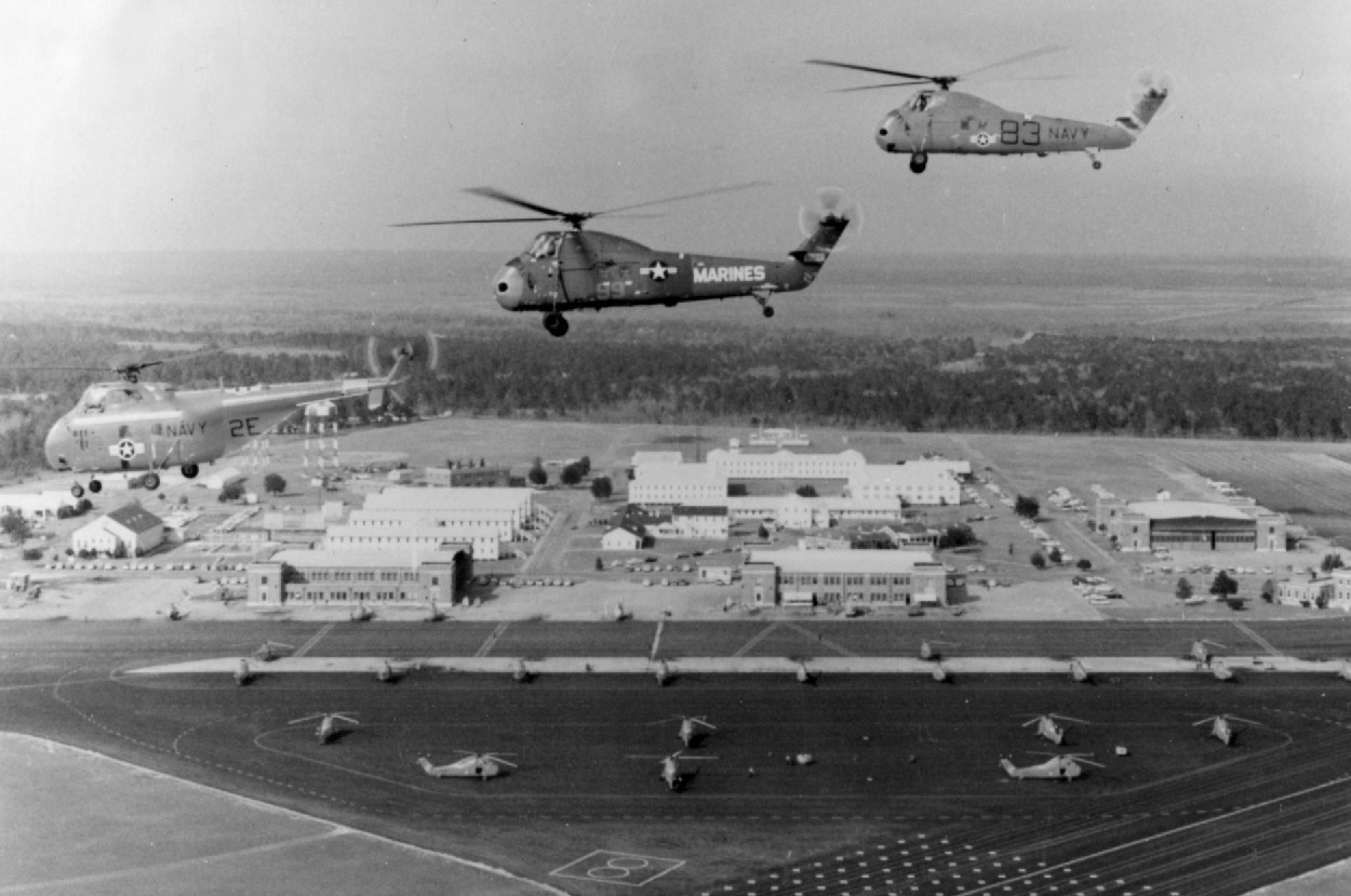 Two Sikorsky H-34 helicopters, one U.S. Navy and one U.S. Marine Corps model, follow a Sikorsky H-19 in flight over NAS Ellyson Field, Pensacola, Florida (USA). The Navy helicopters were assigned to Helicopter Training Squadron HT-8.